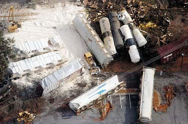 A closeup of the accident scene in the Graniteville train disaster, January 6 2005.